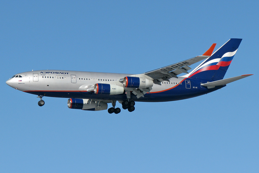 An Aeroflot Ilyushin Il-96-300 at Sheremetyevo International Airport (SVO / UUEE)